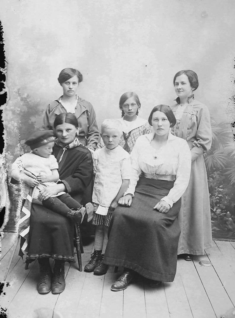 Kirsten Svineng ("Mamma Karasjok") posing as nanny with child on her lap, 1916 Gildeskal(Norway